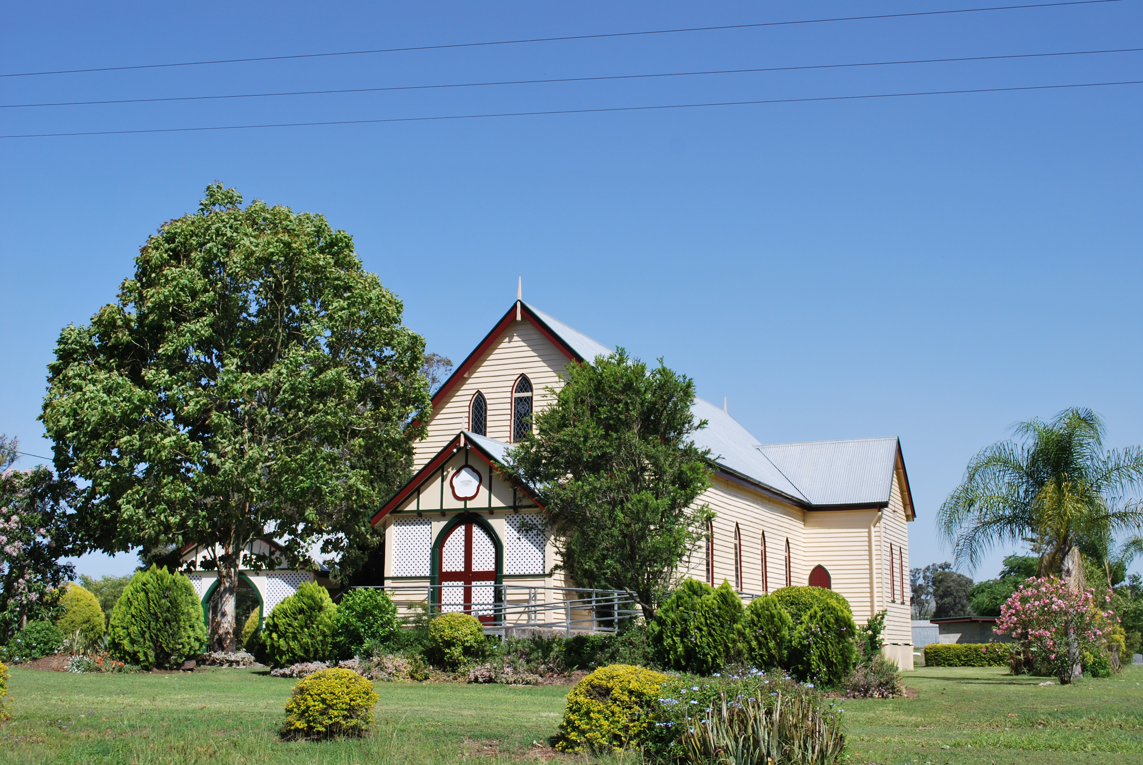 Trinity Lutheran church at Dugandan, Scenic Rim Region, Queensland, Australia